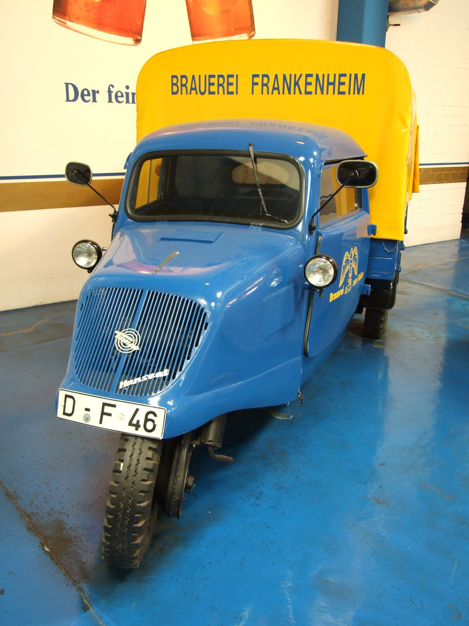 Tempo of Brauerei Frankenheim